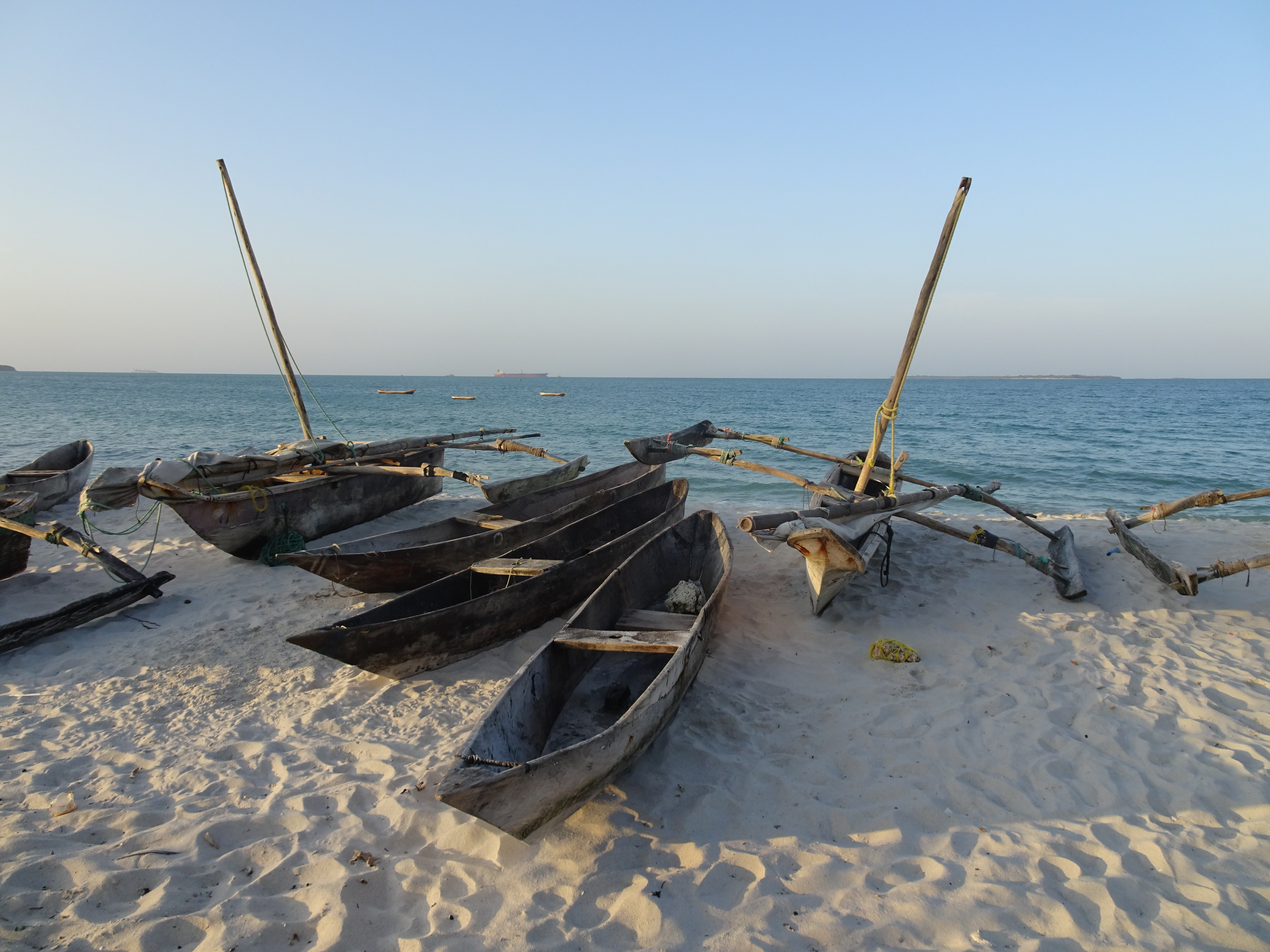 Local fishing boats ashore at Kijiji beach in Kigamboni, Tanzania. This is an image with the theme "Africa on the Move or Transport" from: Tanzania